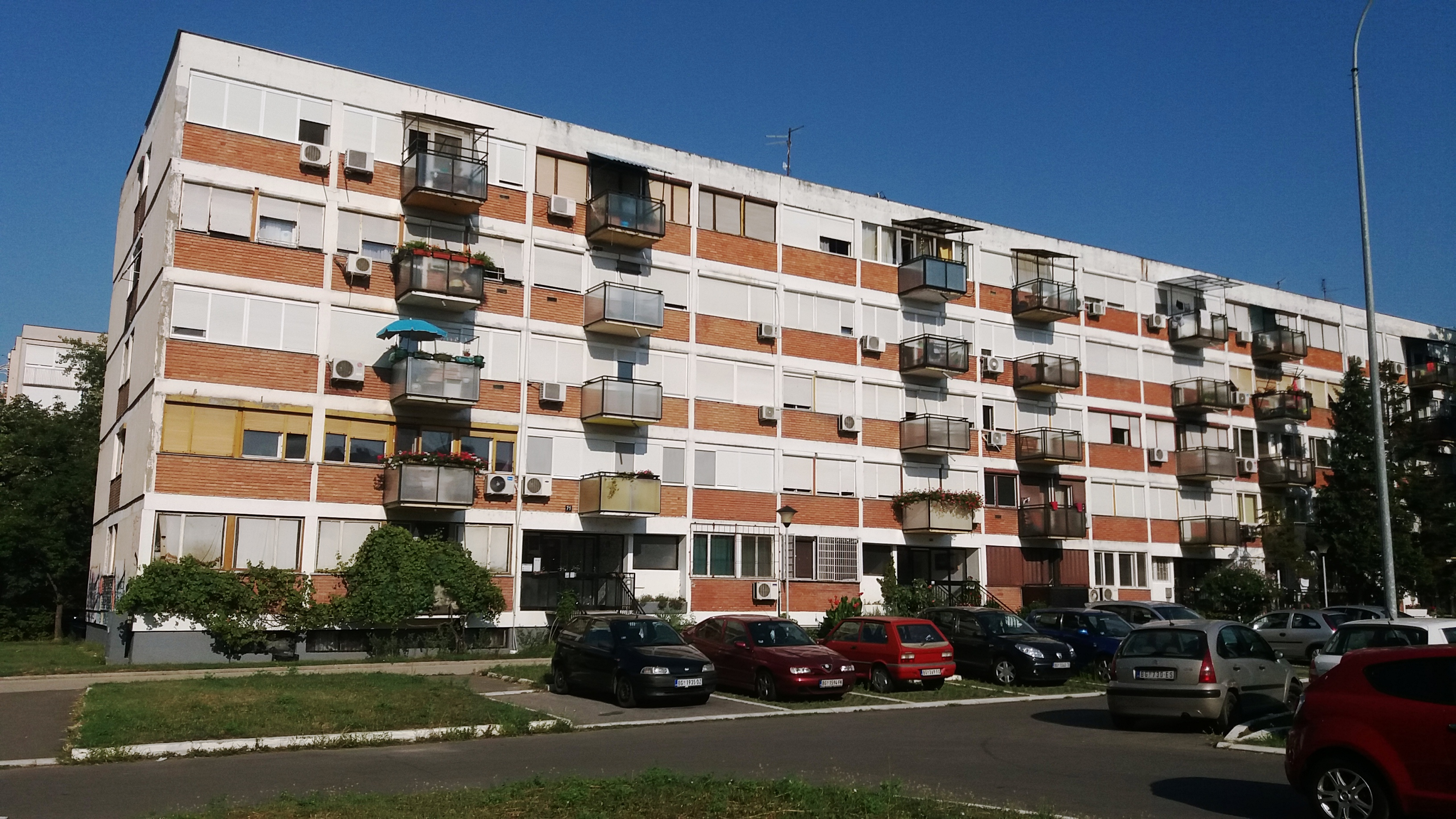 Residential building, Block 11b, New Belgrade